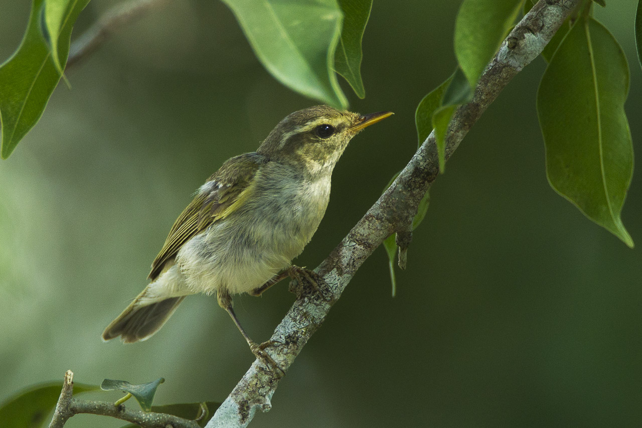 Greenish Warbler -Thailand_S4E7973